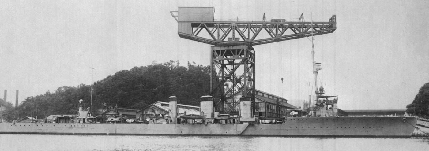 Picture of Japanese cruiser Tenryu in 1919 under construction